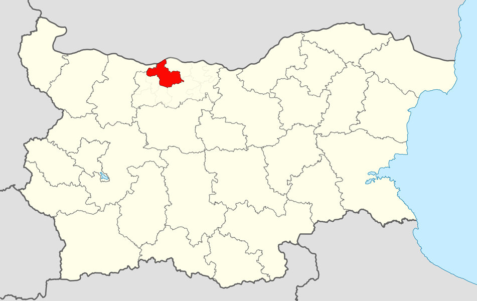 Location map of Dolna Mitropoliya Municipality within Pleven Province, Bulgaria. Equirectangular projection, N/S stretching 130 %. Geographic limits of the map: N: 44.4° N S: 41.1° N W: 22.1° E E: 28.9° E